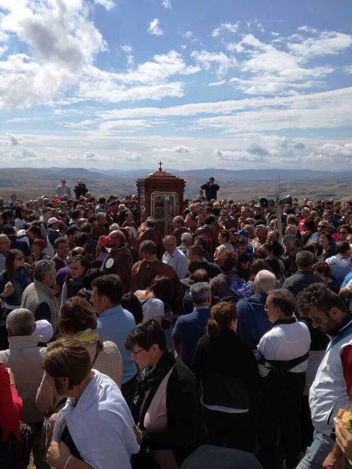 La festa della Madonna del Carmine di Avigliano